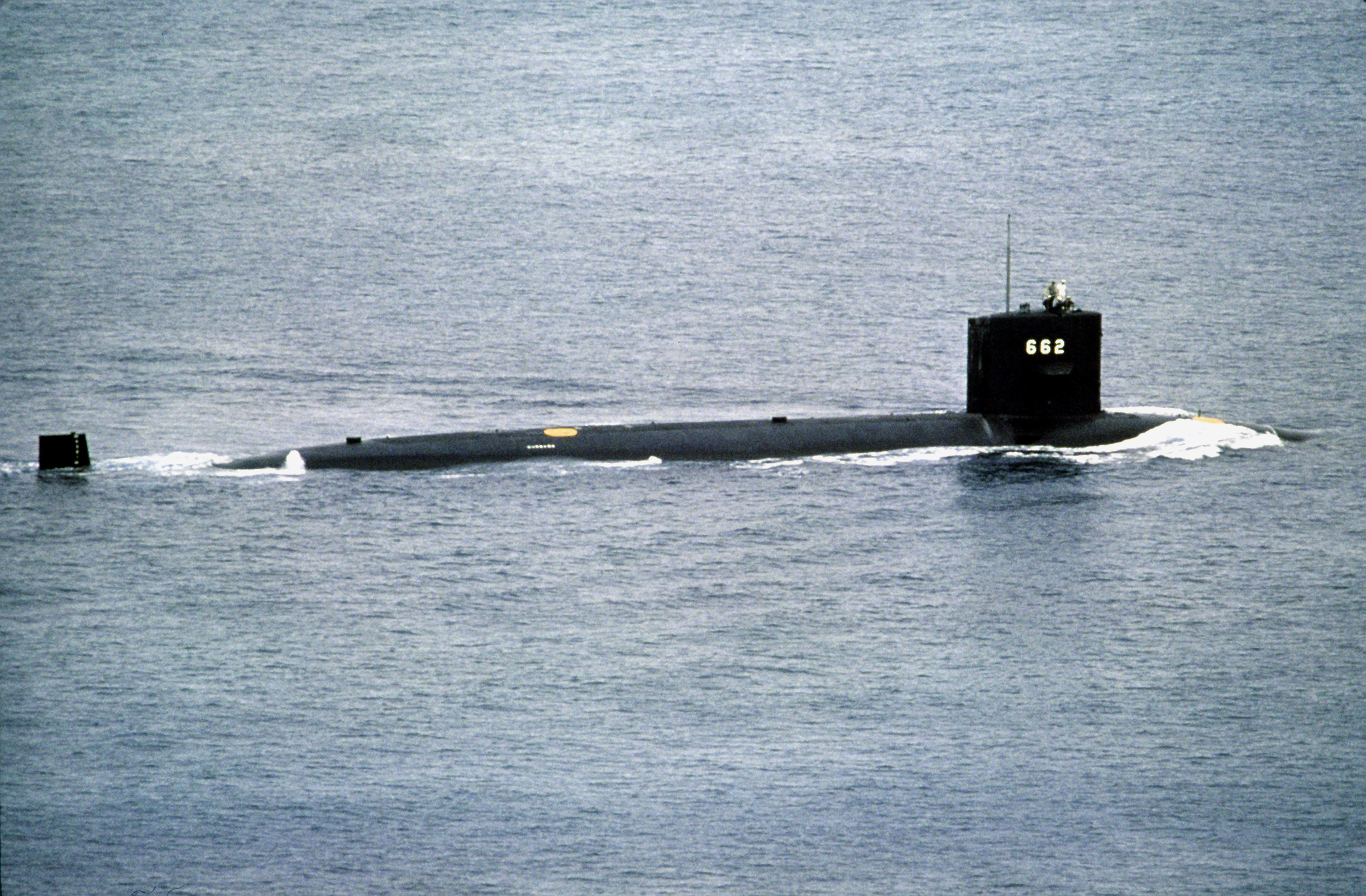 The U.S. Navy attack submarine USS Gurnard (SSN-662) underway as it departs San Diego, California (USA), on 1 February 1991.